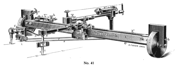 Sketch of an Integraph